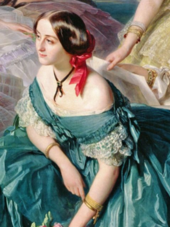 Portrait of Adrienne de Villeneuve-Bargemon, by Franz Xaver Winterhalter (detail of "The Empress Eugenie Surrounded by her Ladies in Waiting").